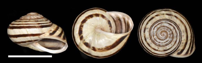 Composition of the 3 main views of the shell of A. campanyonii minoricensis. Locality: Ses Olles, Es Mercadal (Menorca)